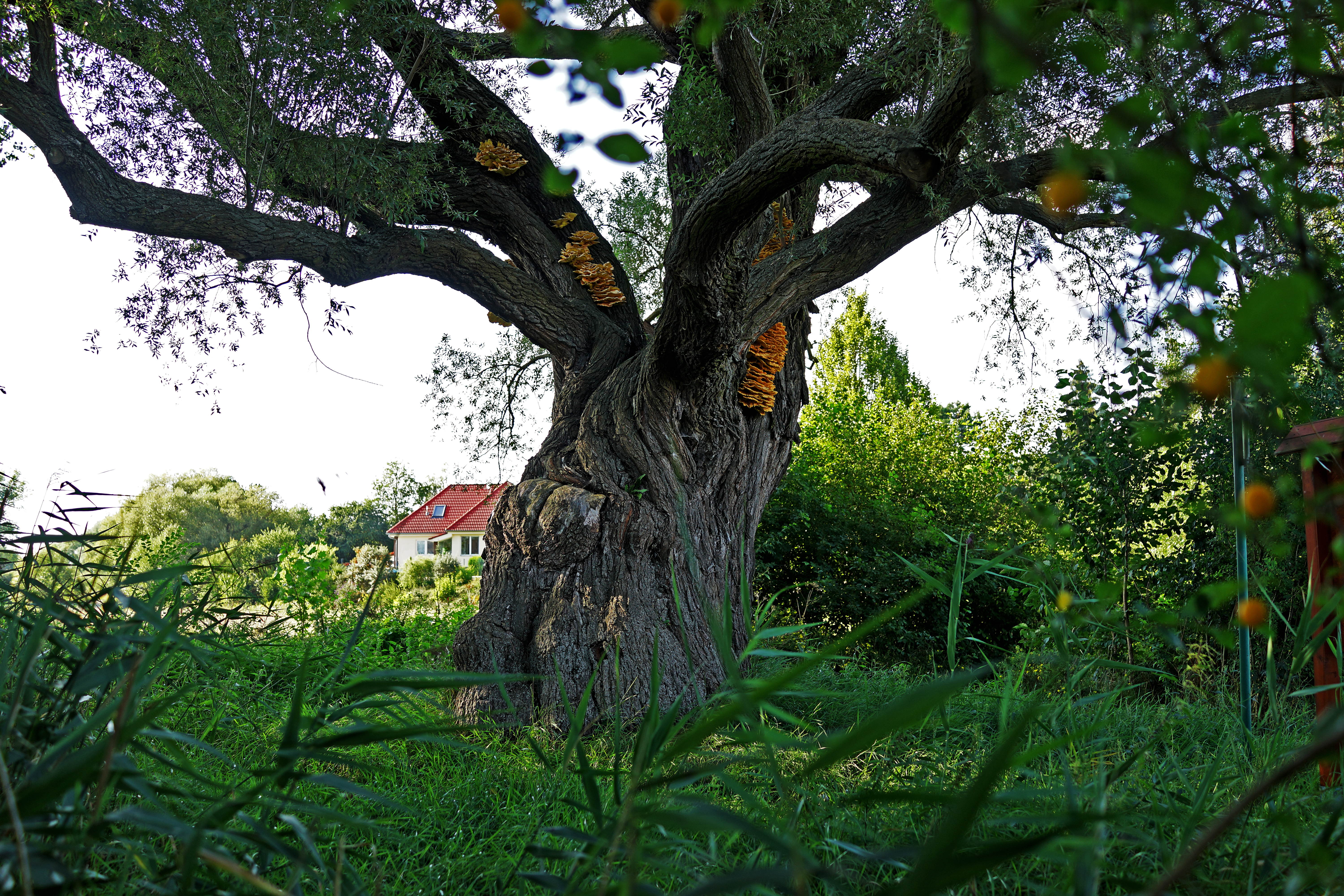 Memorable tree - Willow in Tachlovice, Czech Republic